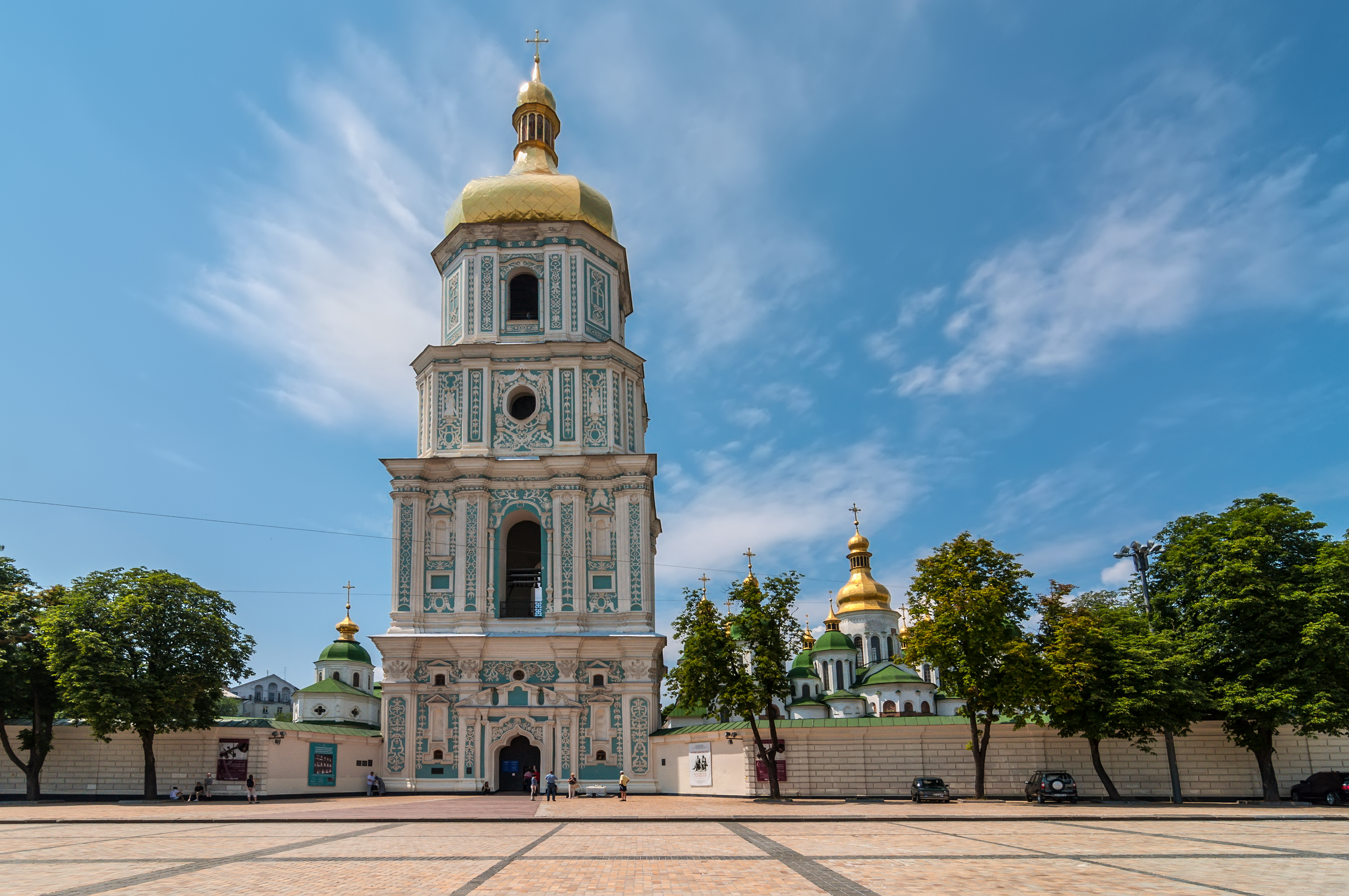 Kyiv, Ukraine - June 18, 2011: View of Saint Sophia Cathedral Bell tower in Kyiv, Ukraine. Sophia Cathedral (Eastern Orthodox Cathedral, 11th century) - UNESCO World Heritage Site.